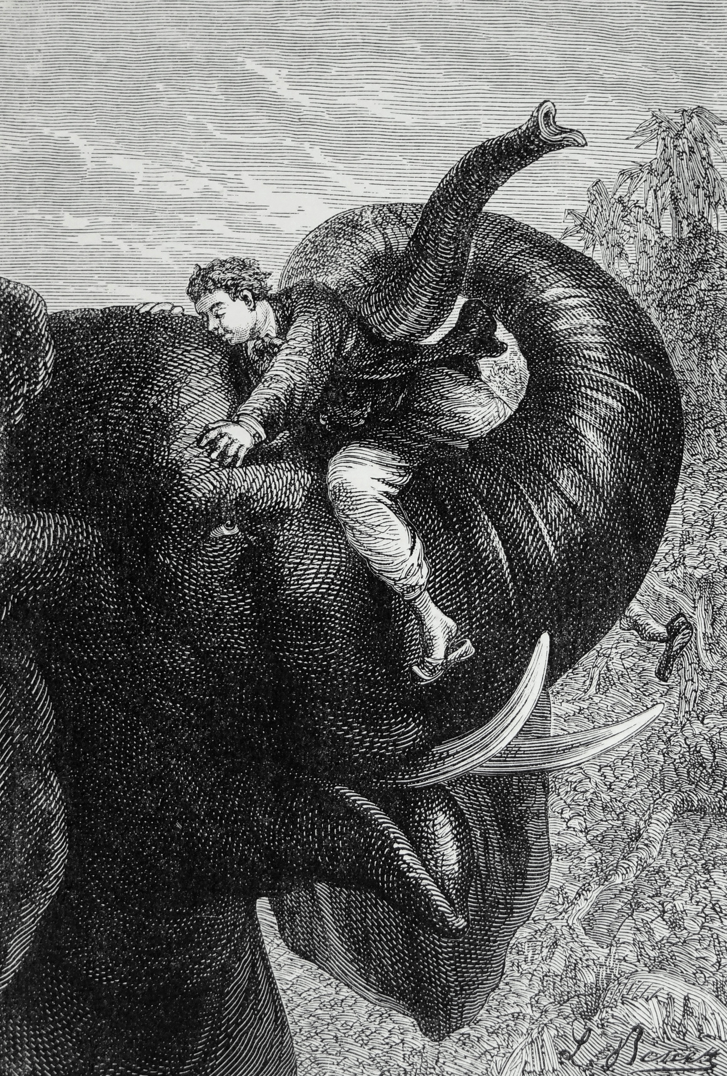 Passepartout not at all Frightened. An ilustration from the novel "Around the World in Eighty Days" by Jules Verne painted by Alphonse de Neuville and/or Léon Benett.